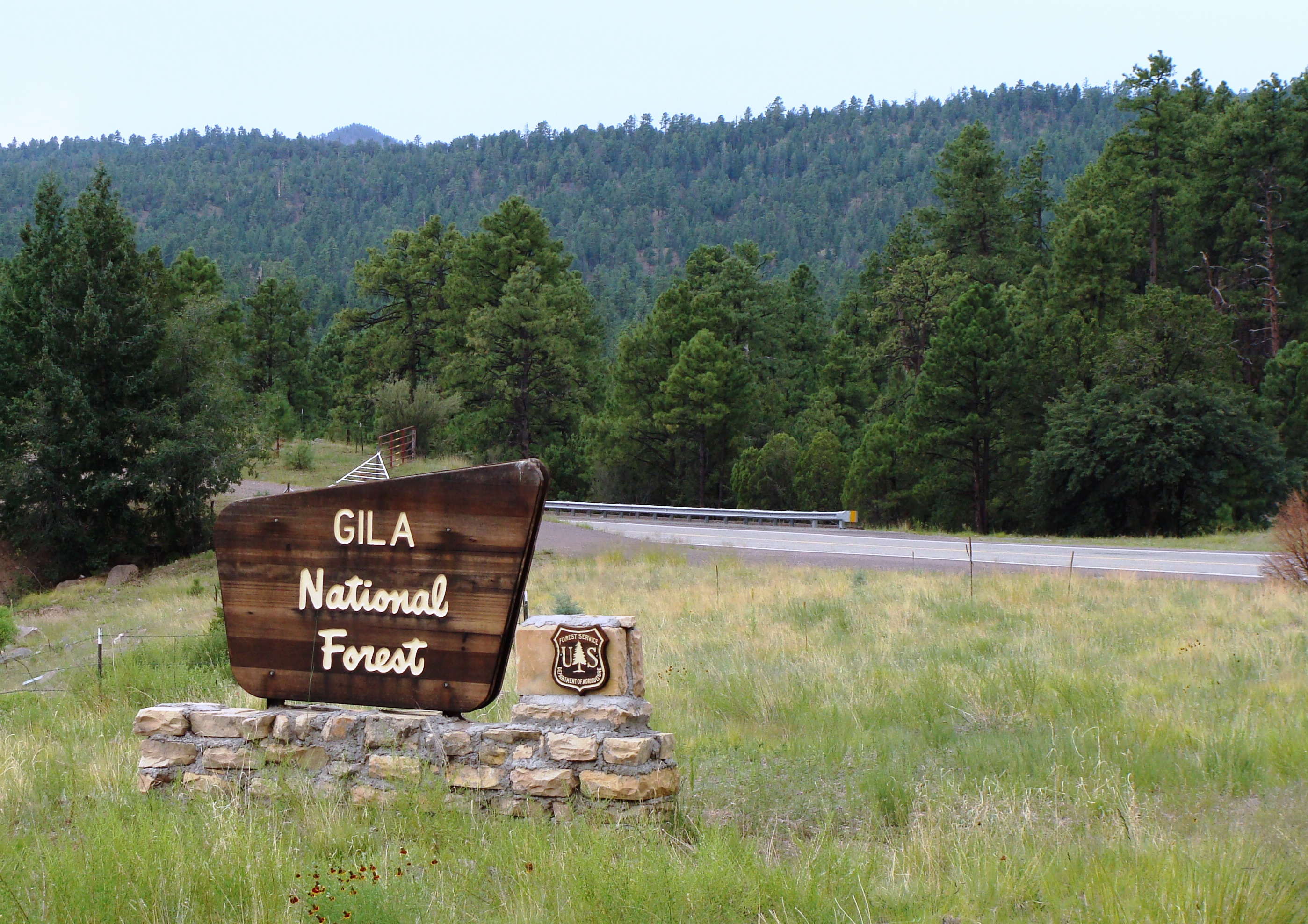 An entrance sign for the Gila National Forest, along Route 180 — in southwestern New Mexico.